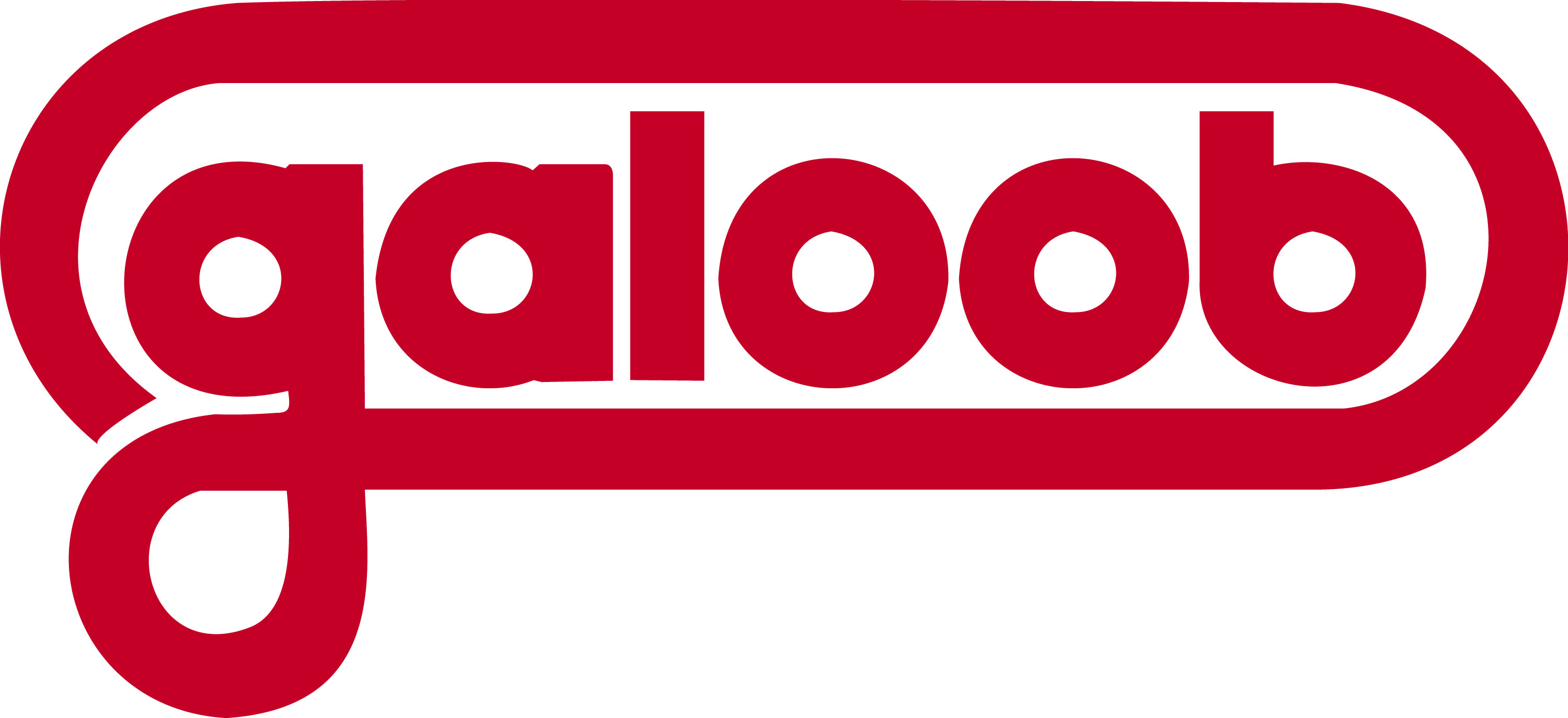 Galoob logo.